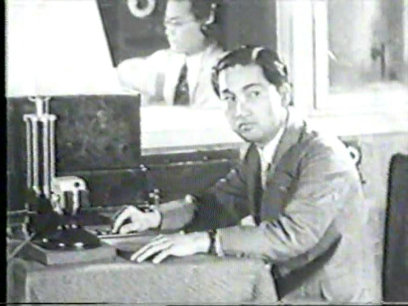 Nobukata Wada (Broadcaster from Japan).